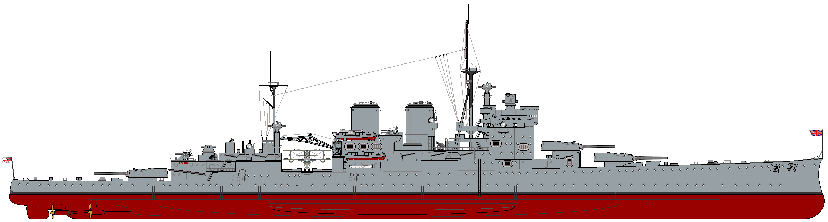 HMS Renown, Royal Navy battlecruiser, as she was in 1939.